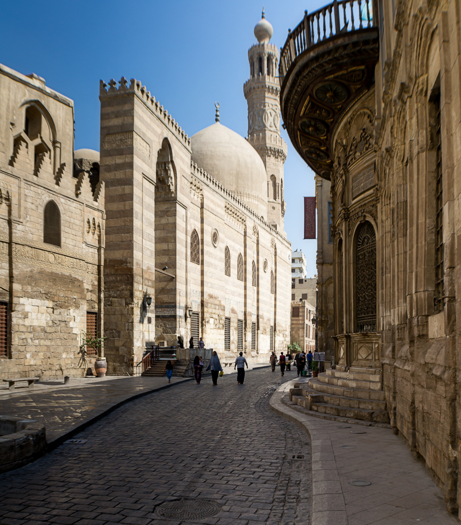 Moez Street, one of the oldest streets in Cairo, approximately one kilometer long. A United Nations study found it to have the greatest concentration of medieval architectural treasures in the Islamic world.